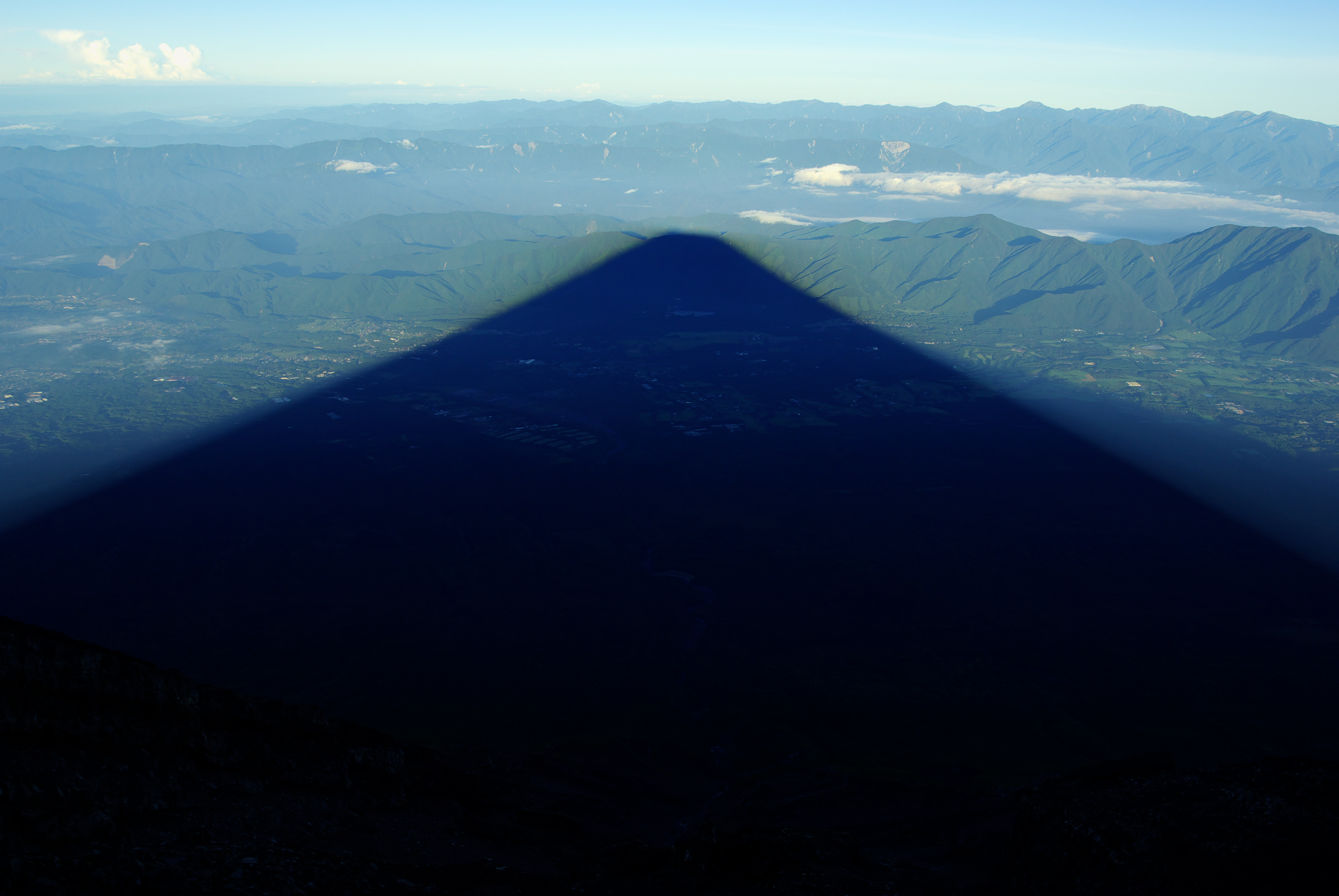 Kagefuji from the summit of Mount Fuji